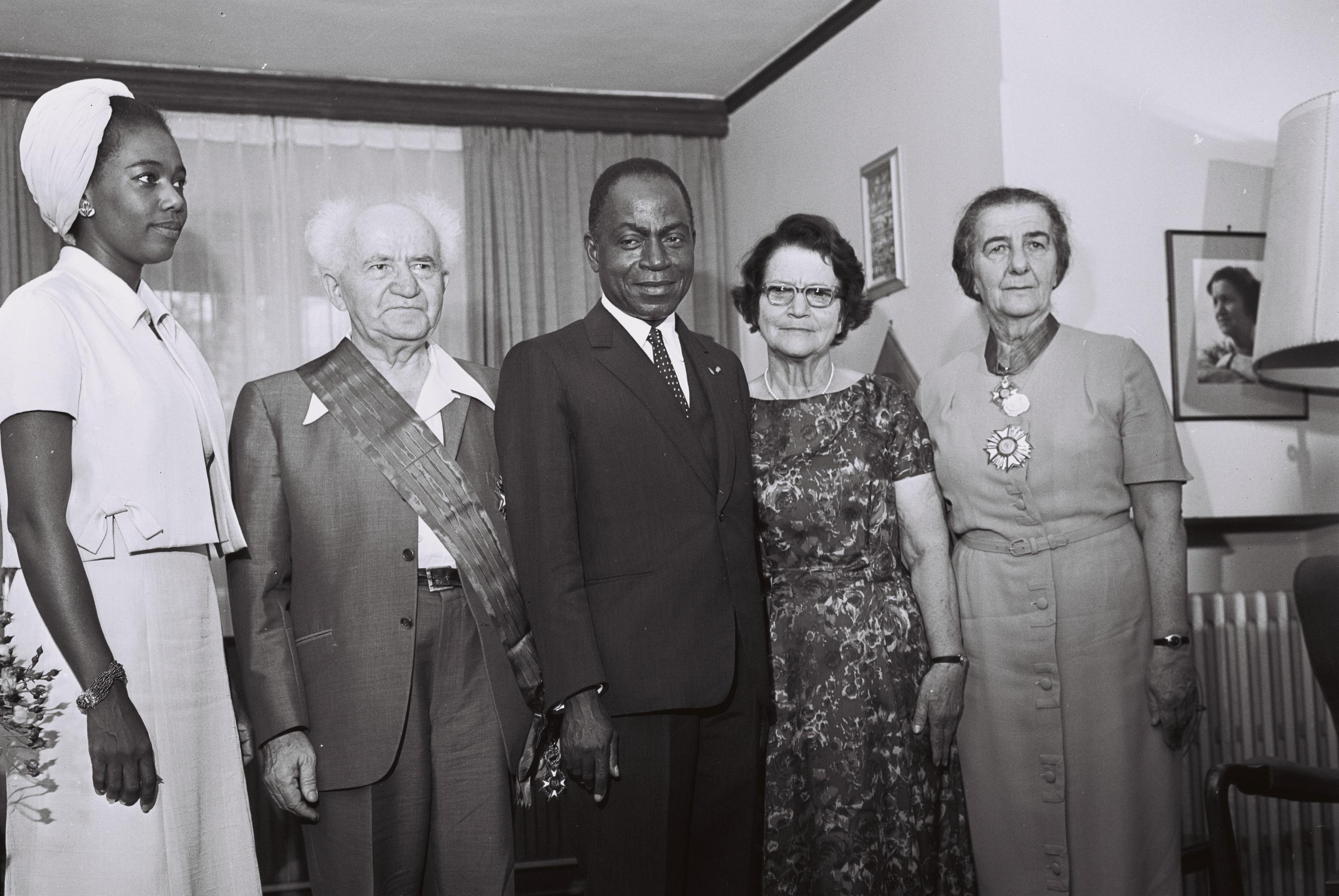 PRES. HOUPHOUET BOIGNY, IVORY COAST, WITH P.M. DAVID BEN GURION AND MIN. GOLDA MEIR AFTER GRANTING THEM IVORY COAST DECORATIONS, AT THE PM'S RESIDENCE, JERUSALEM.